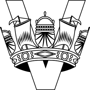 Corporate logo of defunct British engineering conglomerate Vickers Limited